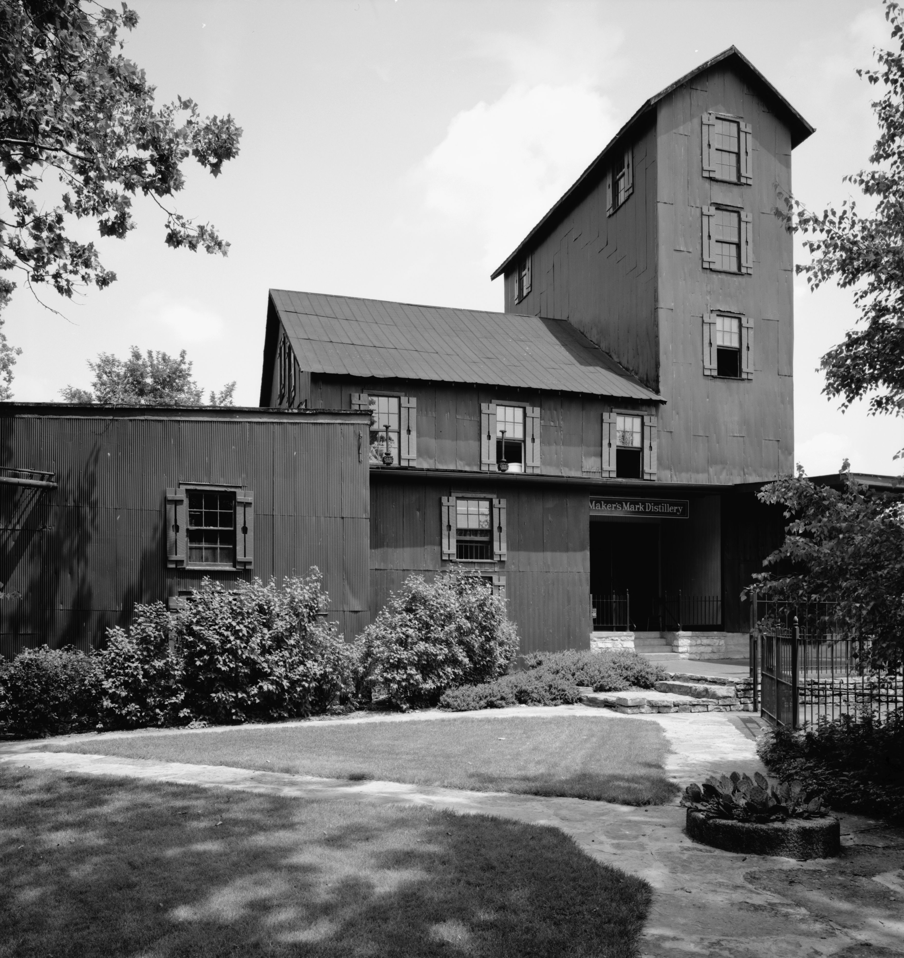 Burks' Makers Mark Distillery, 3 miles east of Loretto, Kentucky. Approximate lat/long: 37°38′52″N 85°20′56″W / 37.64778°N 85.34889°W South view of façade elevation of the Still House. Image has been cropt to remove border.